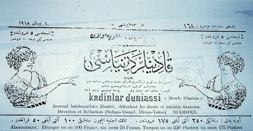 "Kadınlar Dünyası" (Women's World) is a feminist magazine in Turkish language published between 1913 and 1921.